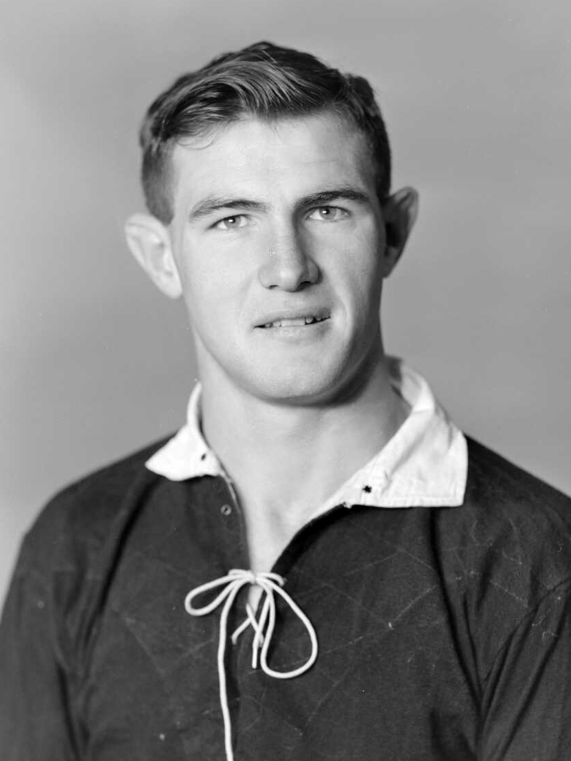 Photograph of rugby player P. J. Jones, taken by Crown Studio Ltd of Wellington.